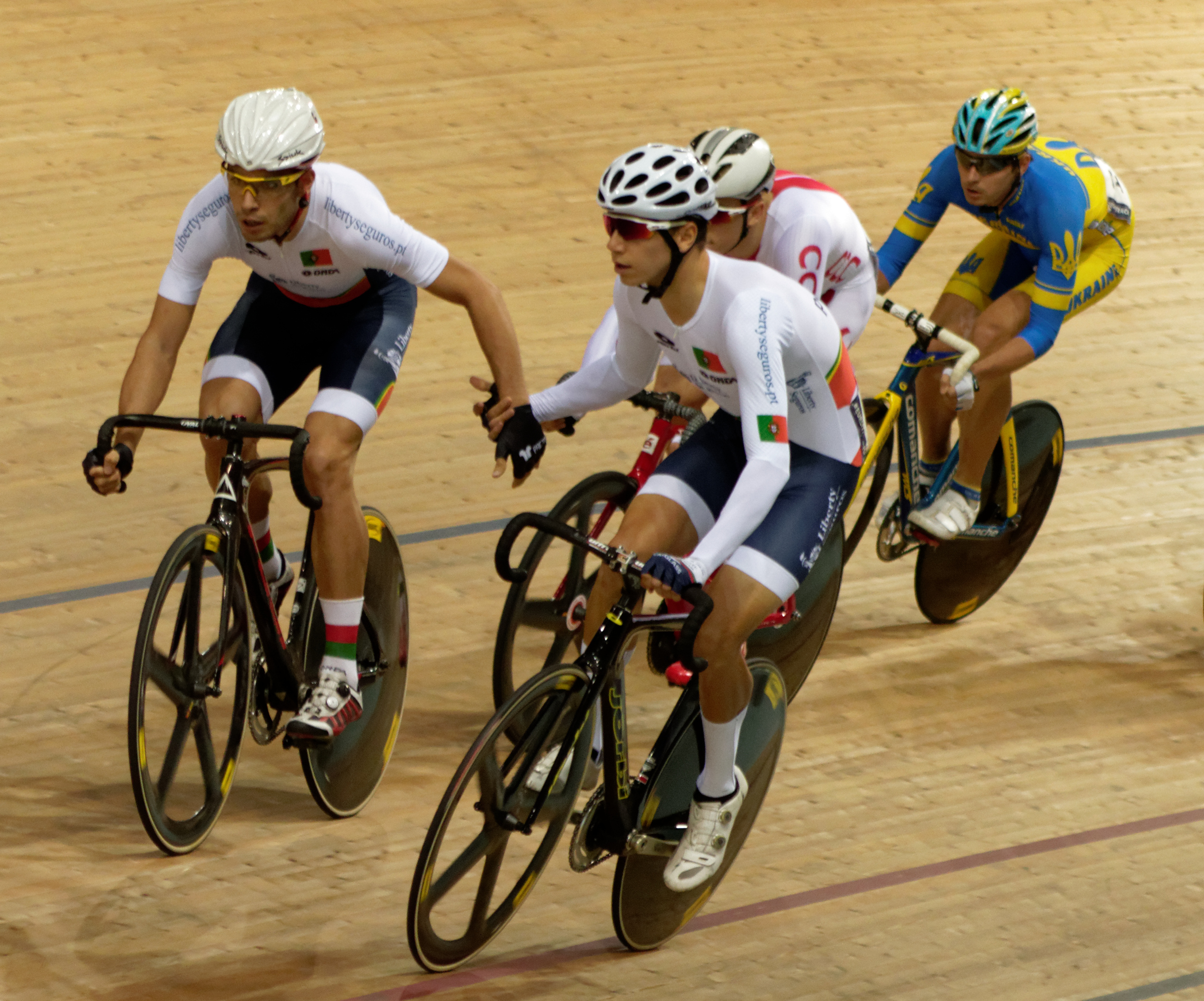 2016 UEC European Track Championships - in front: Portual (João Matias, l., Ivo Oliveira)